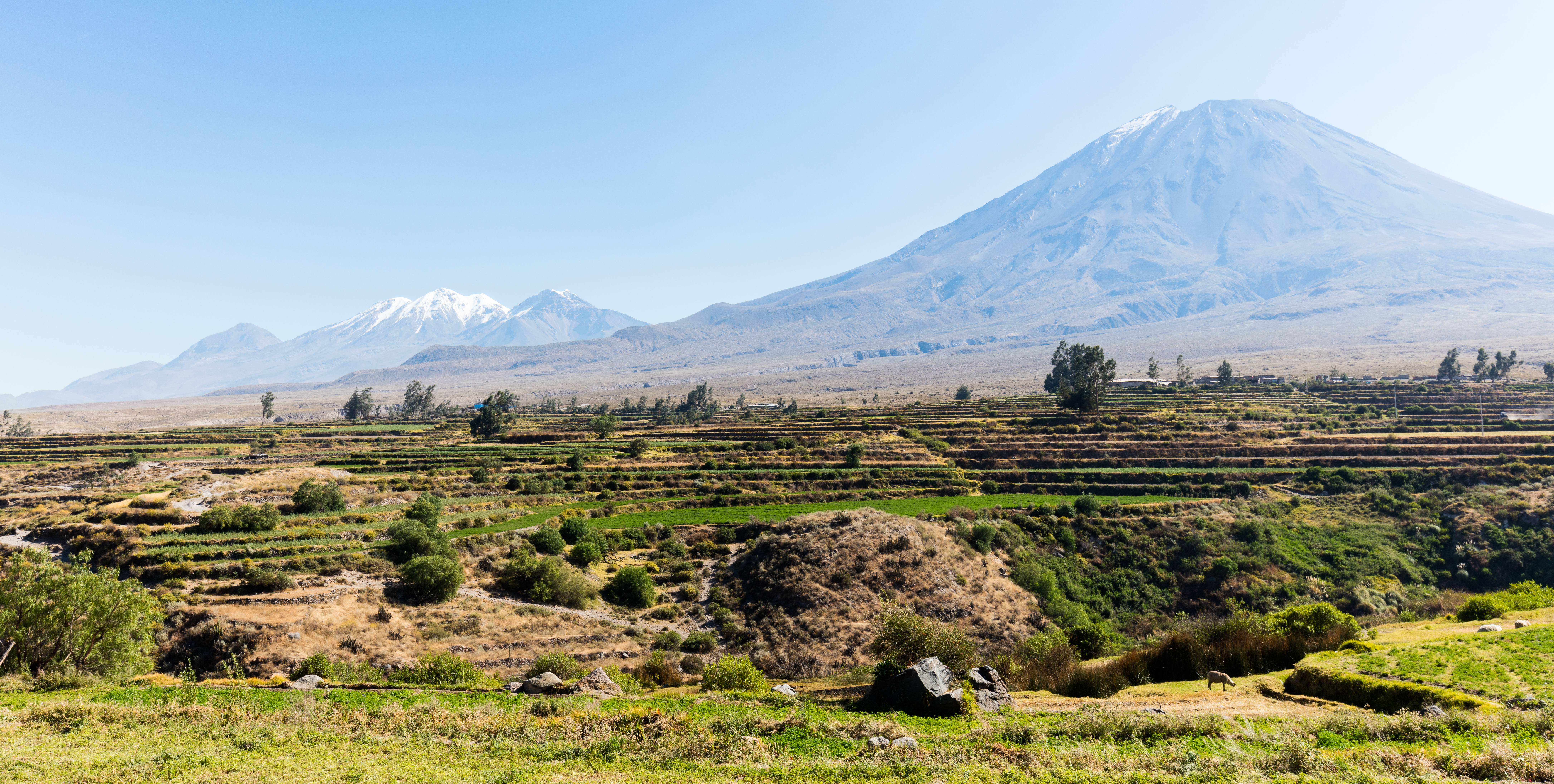 Misti volcano from Arequipa, Peru